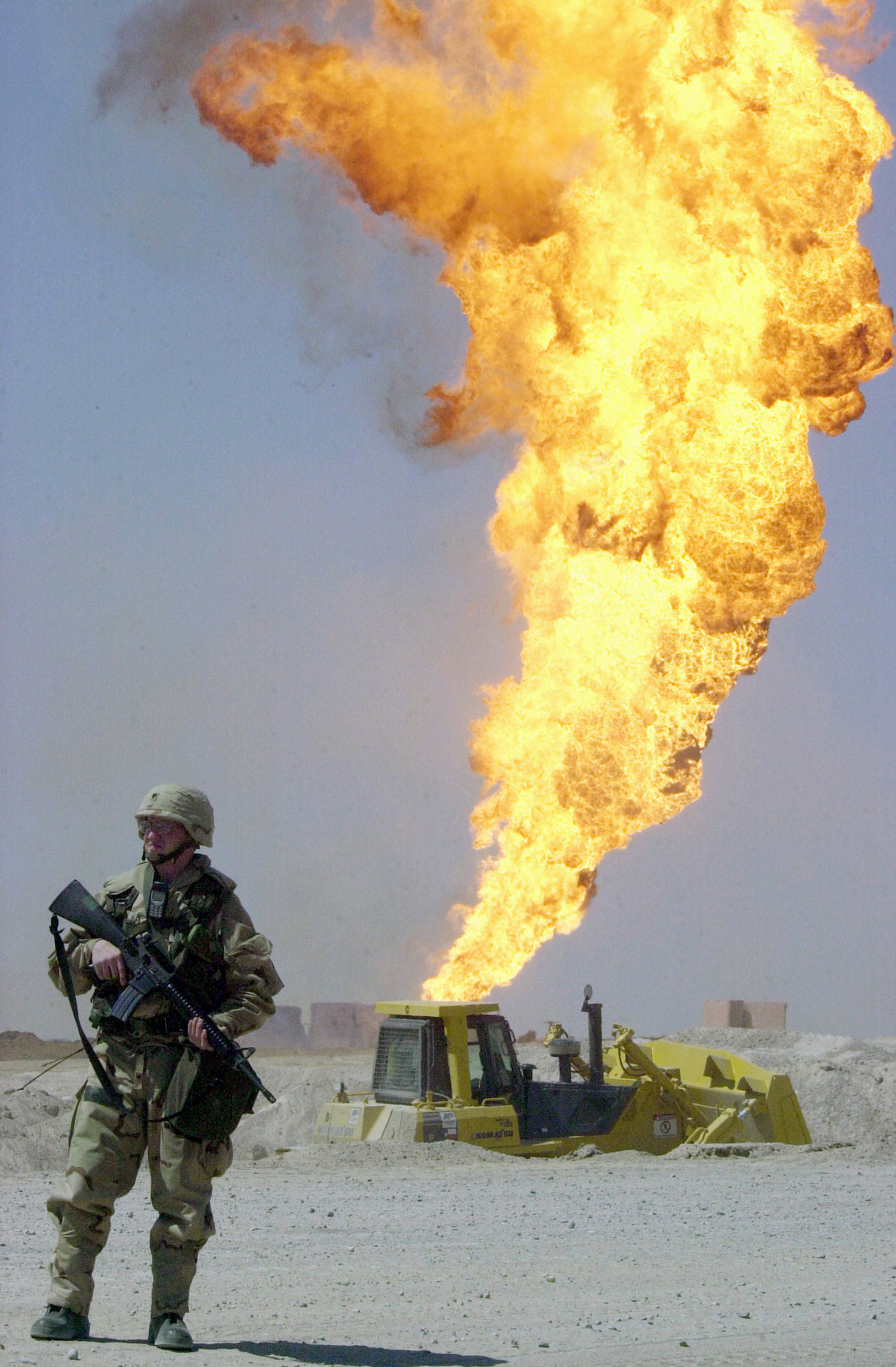 Rumaylah Oil Fields, Iraq (April 2, 2003) -- A U.S. Army soldier stands guard duty near a burning oil well in the Rumaylah Oil Fields. Coalition forces successfully secured the southern oil fields for the economic future of the Iraqi people. The burning wells were set ablaze by the Iraqi regime at the onset of Operation Iraqi Freedom. Operation Iraqi Freedom is the multi-national coalition effort to liberate the Iraqi people, eliminate Iraqi's weapons of mass destruction and end the regime of Saddam Hussein Iraq. U.S. Navy photo by Photographer's Mate 1st Class Arlo K. Abrahamson. (RELEASED)